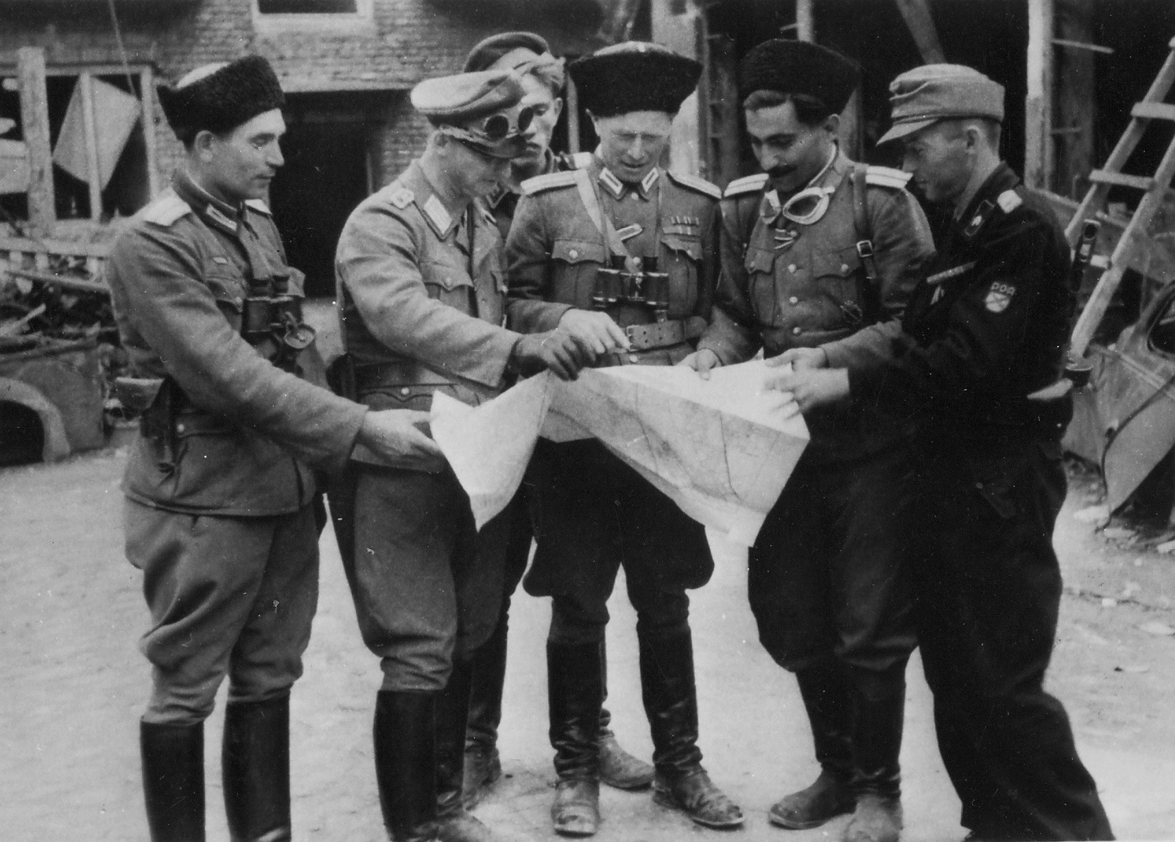 Commanding officer Major Ivan Denisovich Frolov (center) with the officers of the Russian National Liberation Army (RONA) during the Warsaw Uprising. The officer to the right from Frolov is Ltn. Michalczewski. First from the right, journalist Mikhail Oktan. Frolov, along with other RONA members, was charged with treason by the of Military Board of the Supreme Court of the USSR and hanged in 1946.